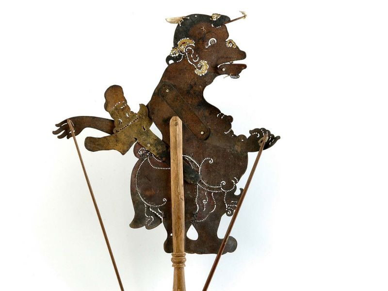 Wayang kulit figure, representing Sangut, servant